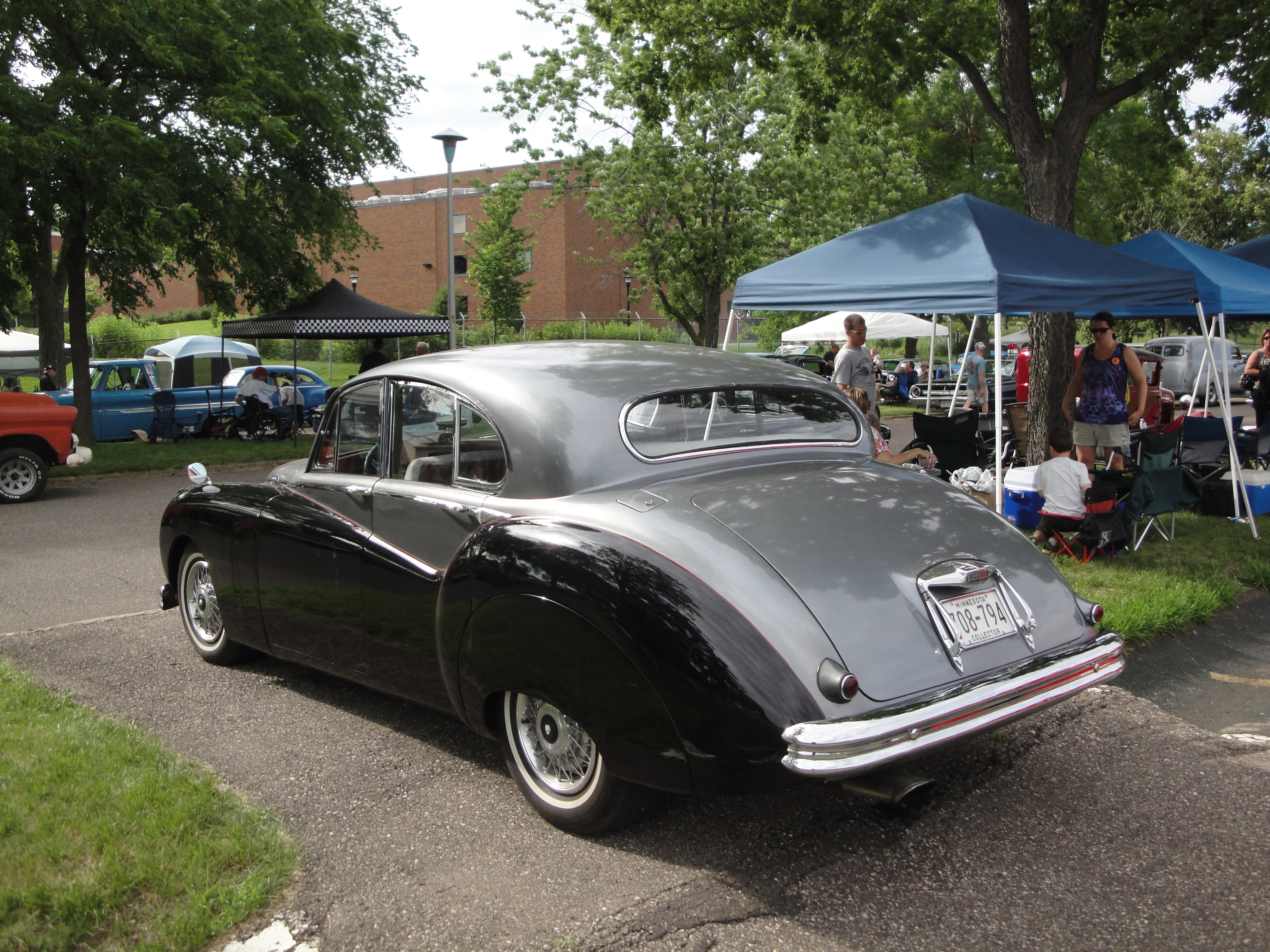 Minnesota Street Rod Association 39th Annual "Back to the Fifties" June 2012 Minnesota State Fairgrounds St. Paul MN